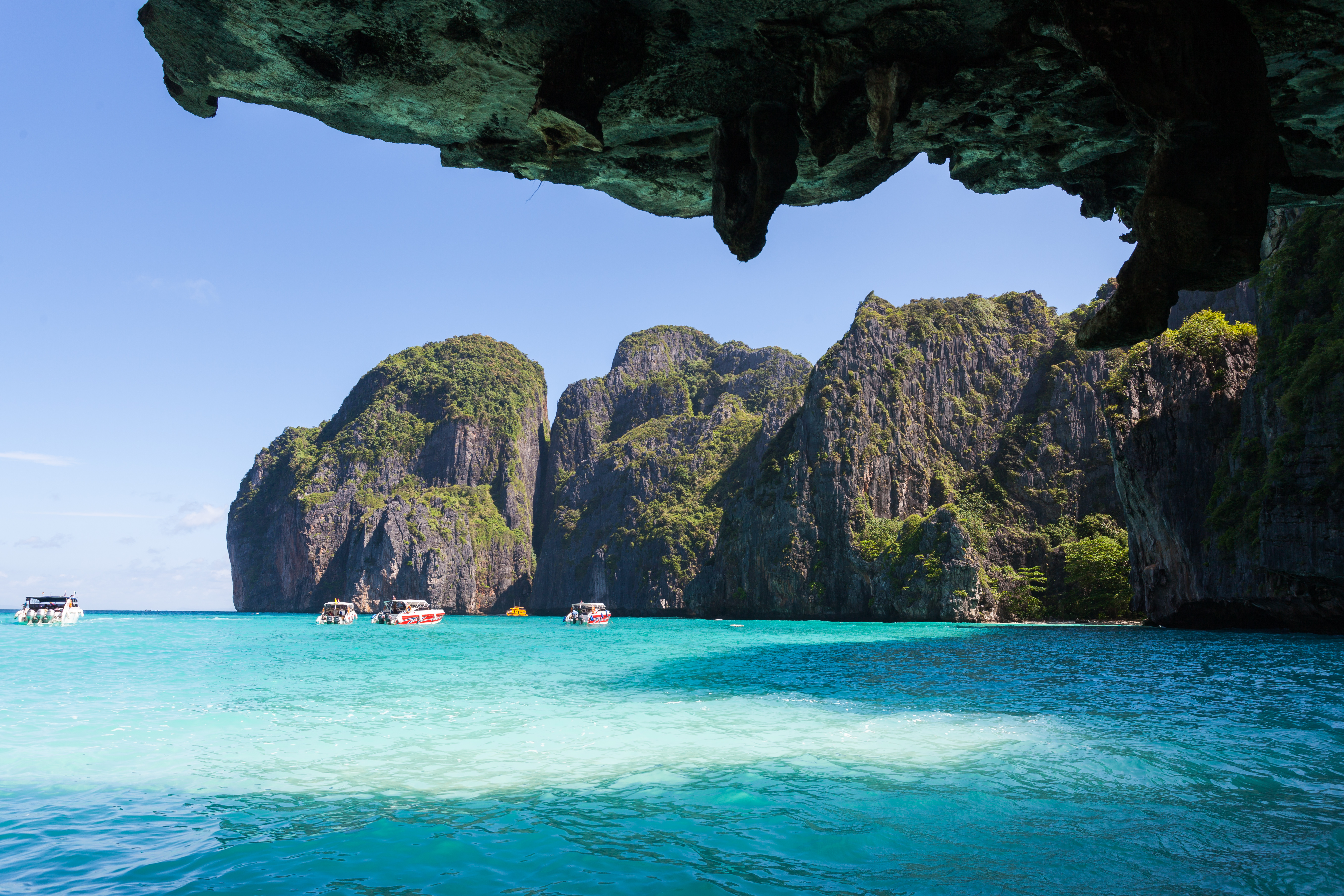 Maya Beach, Ko Phi Phi, Thailand